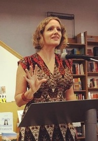 Jane Ward giving a lecture at Skylight Bookstore in Los Angeles.